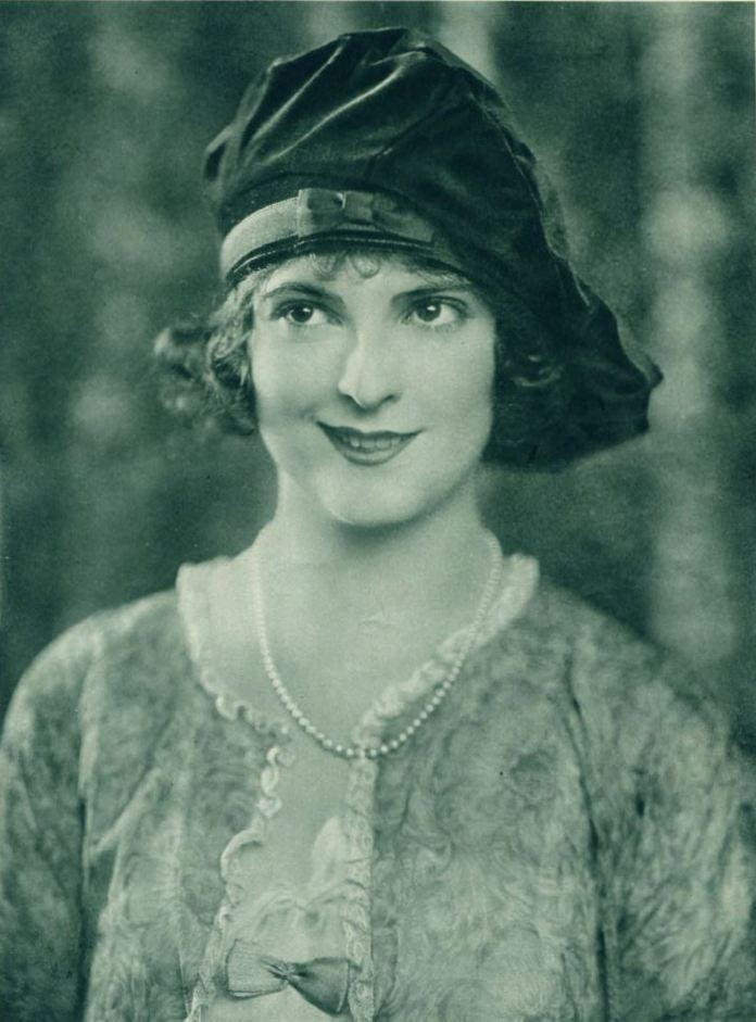 Priscilla Dean on page 21 of Photoplay magazine.